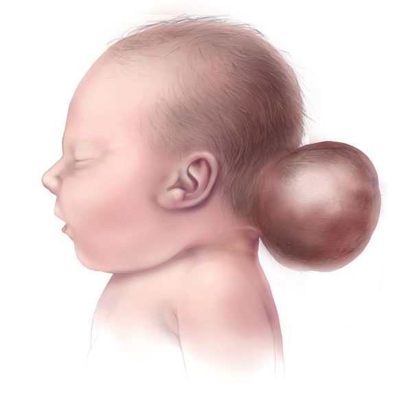 Illustration of a baby with encephalocele